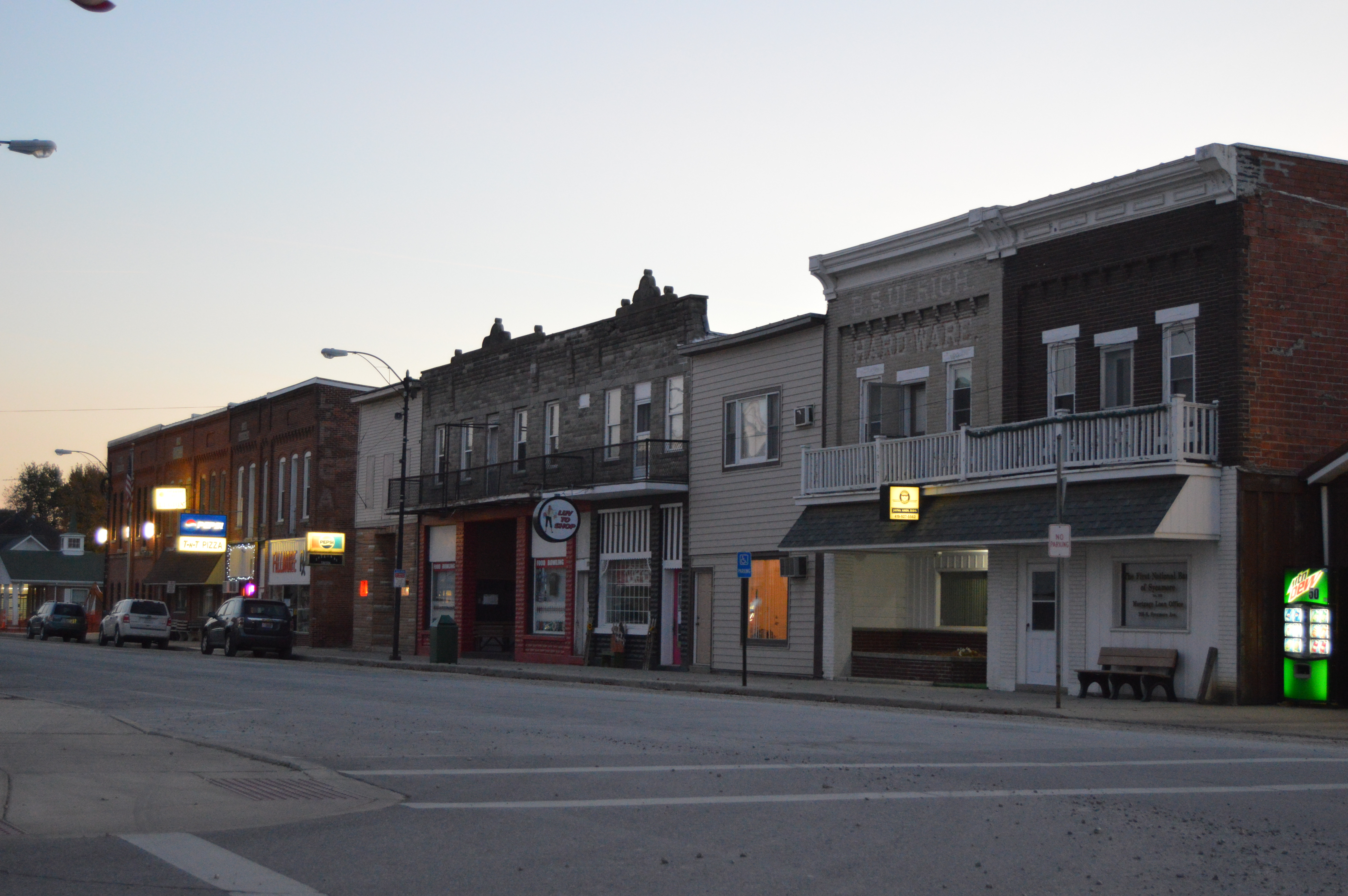 Buildings on the western side of the 100 block of S. Sycamore Avenue in Sycamore, Ohio, United States. Photo looks south from the Saffell Avenue intersection, i.e. State Routes 67/103/231.